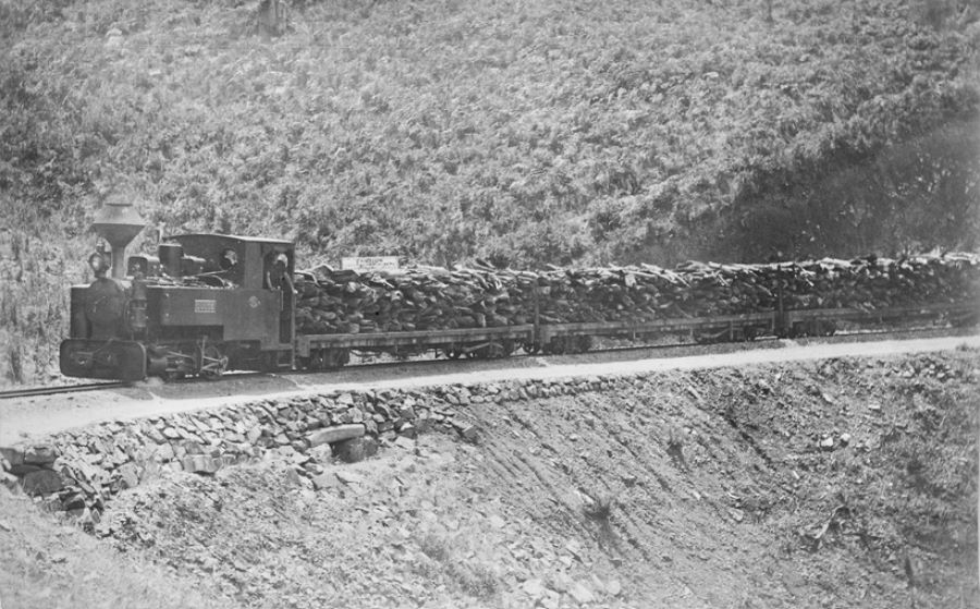 State Library of South Australia: A firewood train on the Goondah-Burrinjuck line [PRG 280/1/7/49]. The caption on the original photograph identifies this as 'A freight train pulling wagon loads of cut wood near Sydney'. This appears to be incorrect with several researchers identifying it as one of the Krauss-built locomotives hauling a firewood train on the narrow gauge railway (2 foot) to Burrinjuck Dam in NSW. The narrow gauge track was built from Goondah (a station on the Great Southern Railway, west of Yass) to Burrinjuck in 1907-1908 (the line was opened in June 1908),and was used to haul cement, firewood, construction materials, food supplies and passengers to Burrinjuck, where a power station, located near the dam site, was being constructed. Some 80,200 tons of firewood was consumed for this purpose, between 1909 and 1928. Length of the railway was 26 mile 26 chains (42.2 km); the rails were taken up in April 1929. The locomotive is one of the four German-built Krauss steam locomotives, purchased by the Department of Public Works, NSW, for the construction project. The date is probably bewteen 1908 and 1916 - after this time the locomotives' builders' plates (the oval shape on the side of the cab), which gave away their German origins, were removed as a result of the feverish anti-German feelings which built up during The Great War. Further information can be obtained forn the book 'The Goondah-Burrinjuck railway' by John R. Newland.